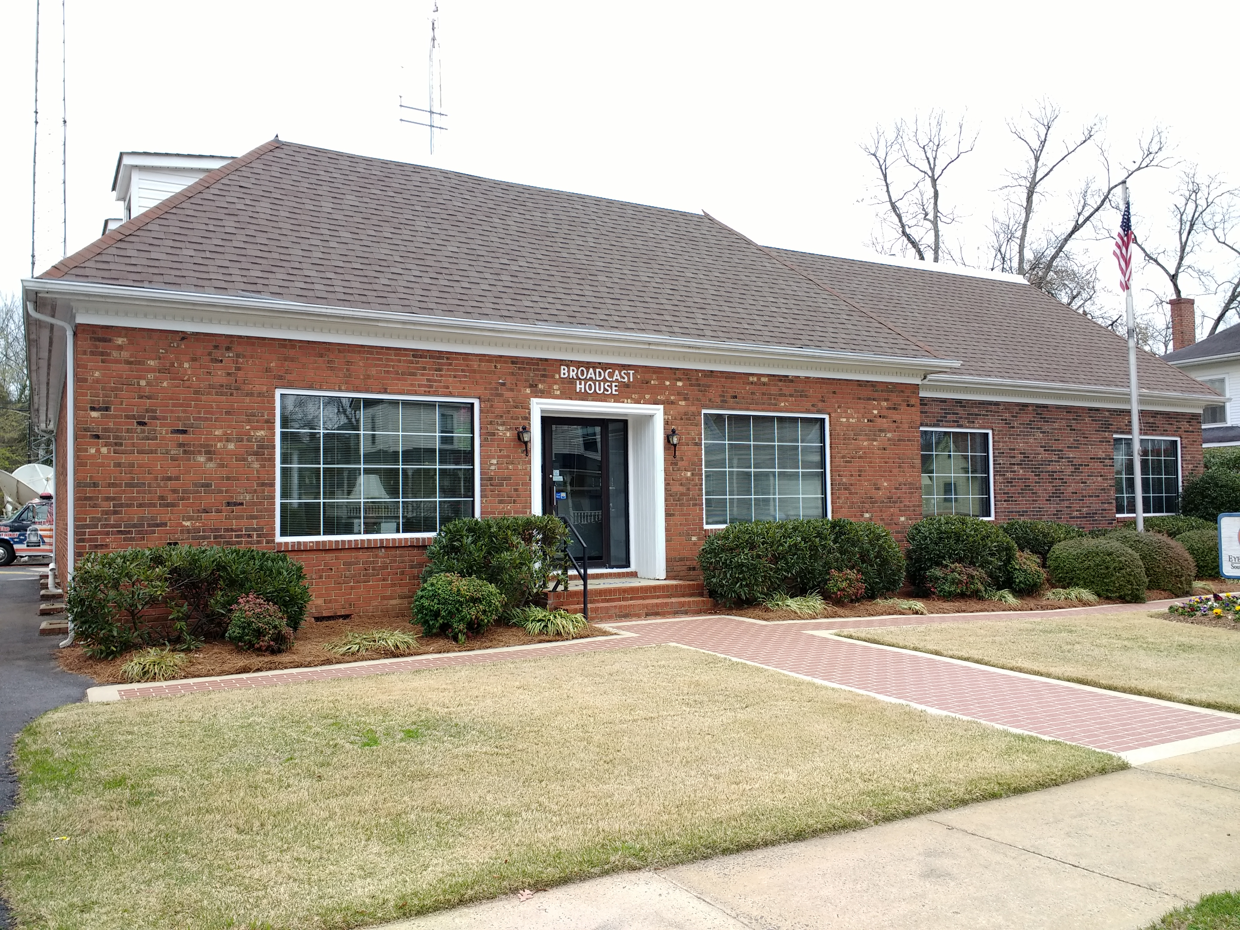 9 Eyewitness News, WRHI, and Interstate 107 FM broadcast house in Rock Hill, South Carolina.